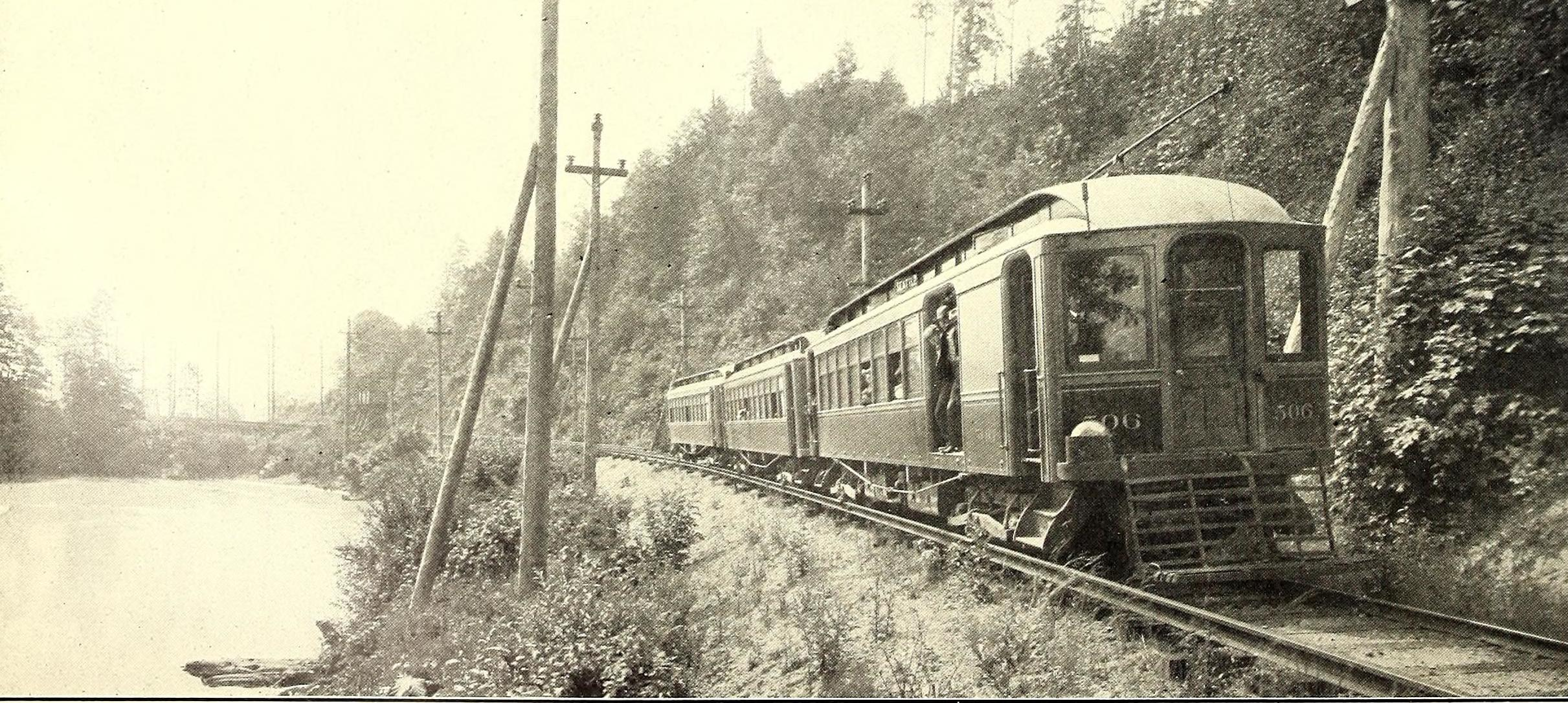 Puget Sound Electric Railway—View Along the Interurban Line Near Tacoma1= Title: Electric railway journal Year: 1908 (1900s) Authors: Subjects: Electric railroads Publisher: (New York) McGraw Hill Pub. Co Text Appearing Before Image: Seattle Electric Company—Exterior of Georgetown PowerStation Seattle Electric Company—Interior of North SeattleSubstation Plate XXX Text Appearing After Image: Puget Sound Electric Railway—View Along the Interurban Line Near Tacoma Plate XXXI